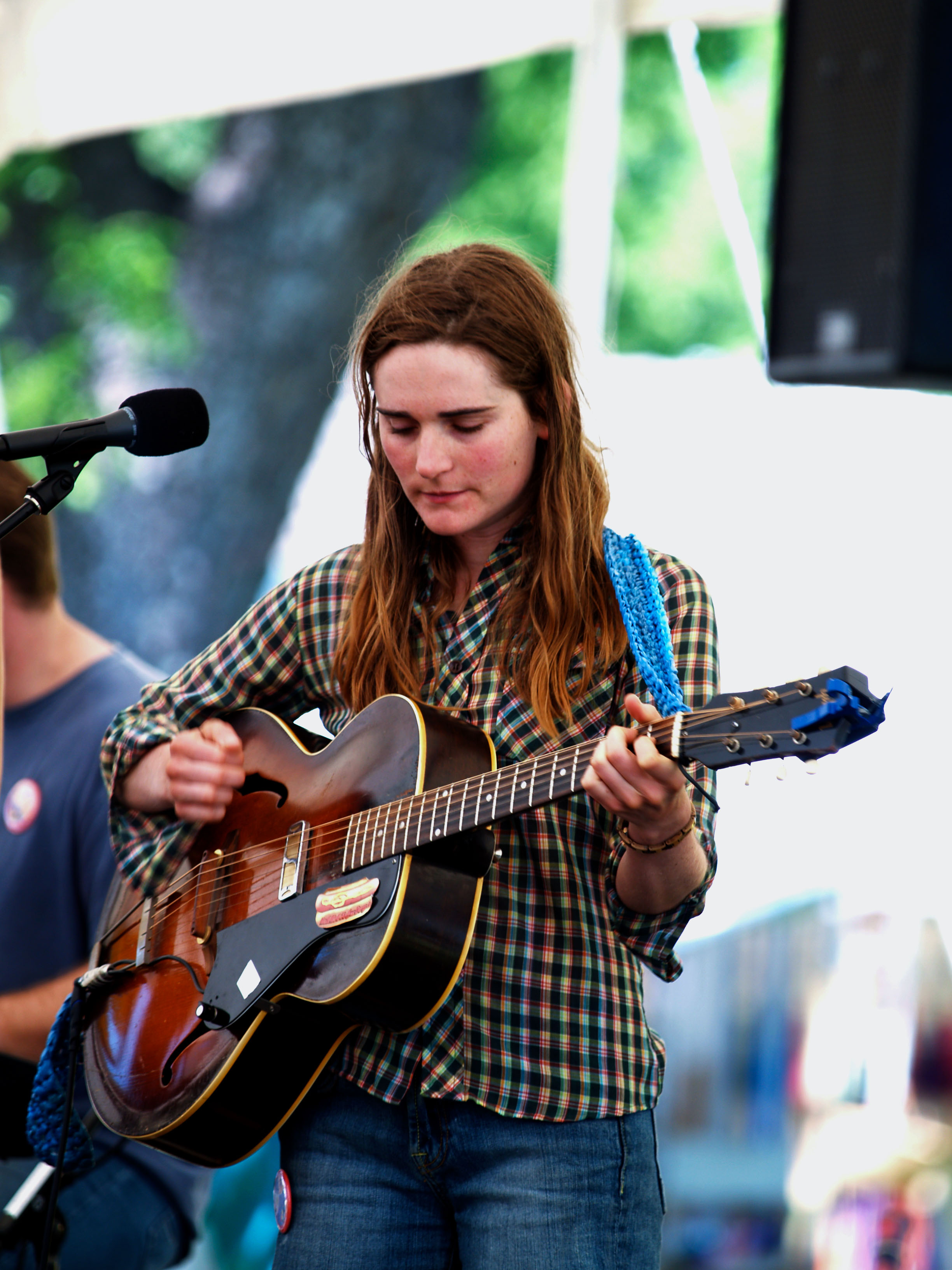 Musician Abby DeWald of The Ditty Bops performing at the 2007 Smoky Hill River Festival.